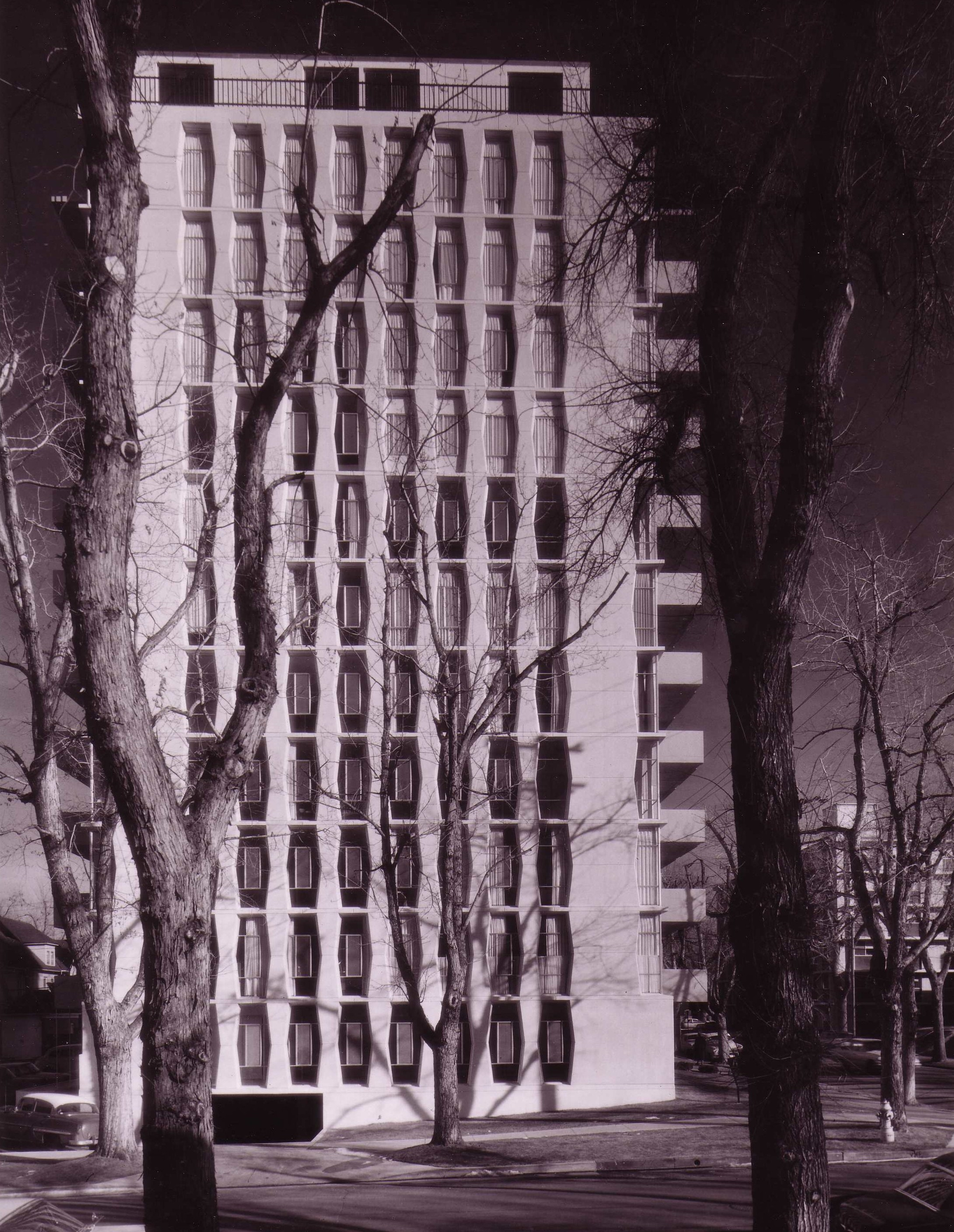 DESCI (Denver Educational Senior Citizens, Inc.) Building, Denver - Photgraph of DESCI building completed.